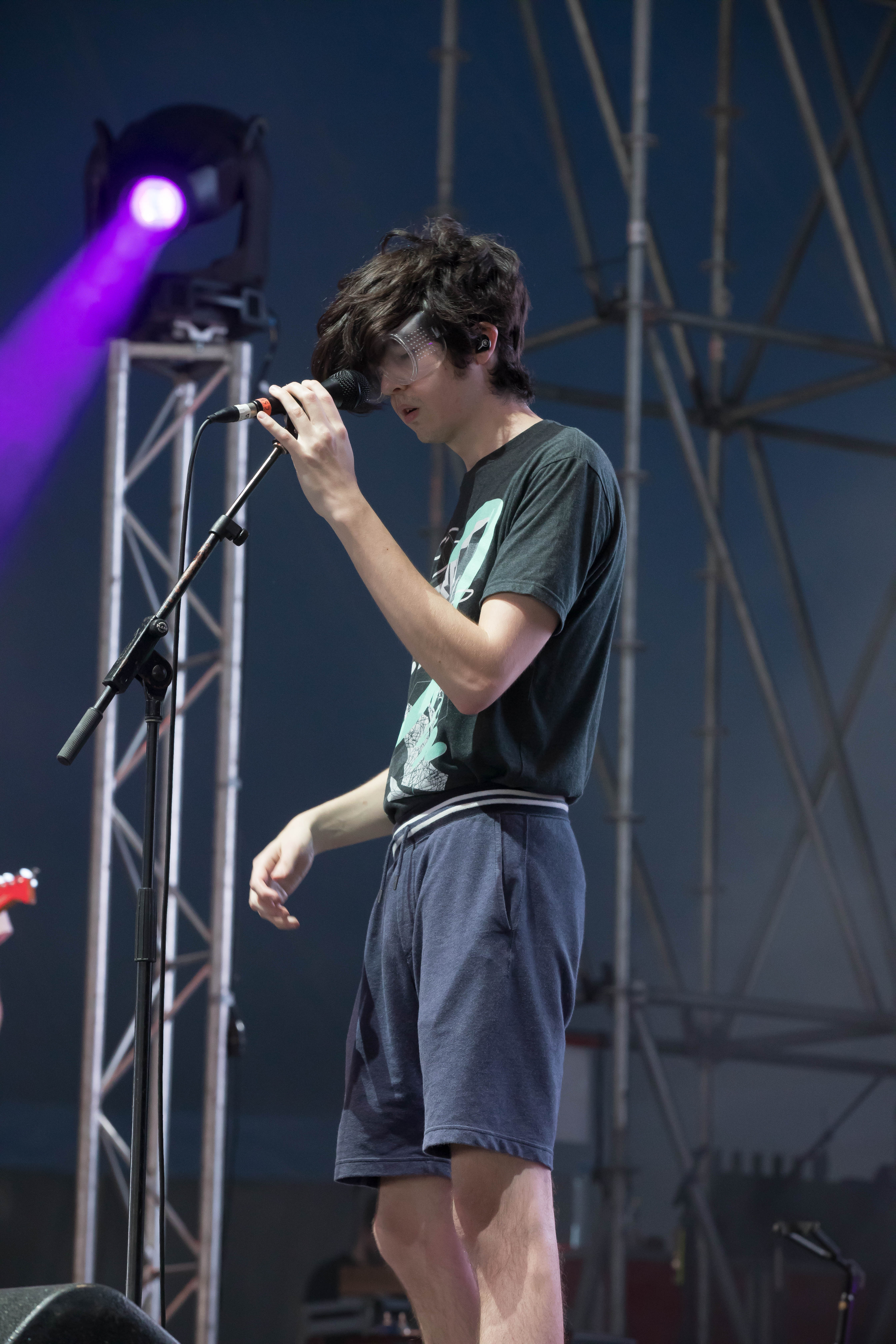 Car Seat Headrest